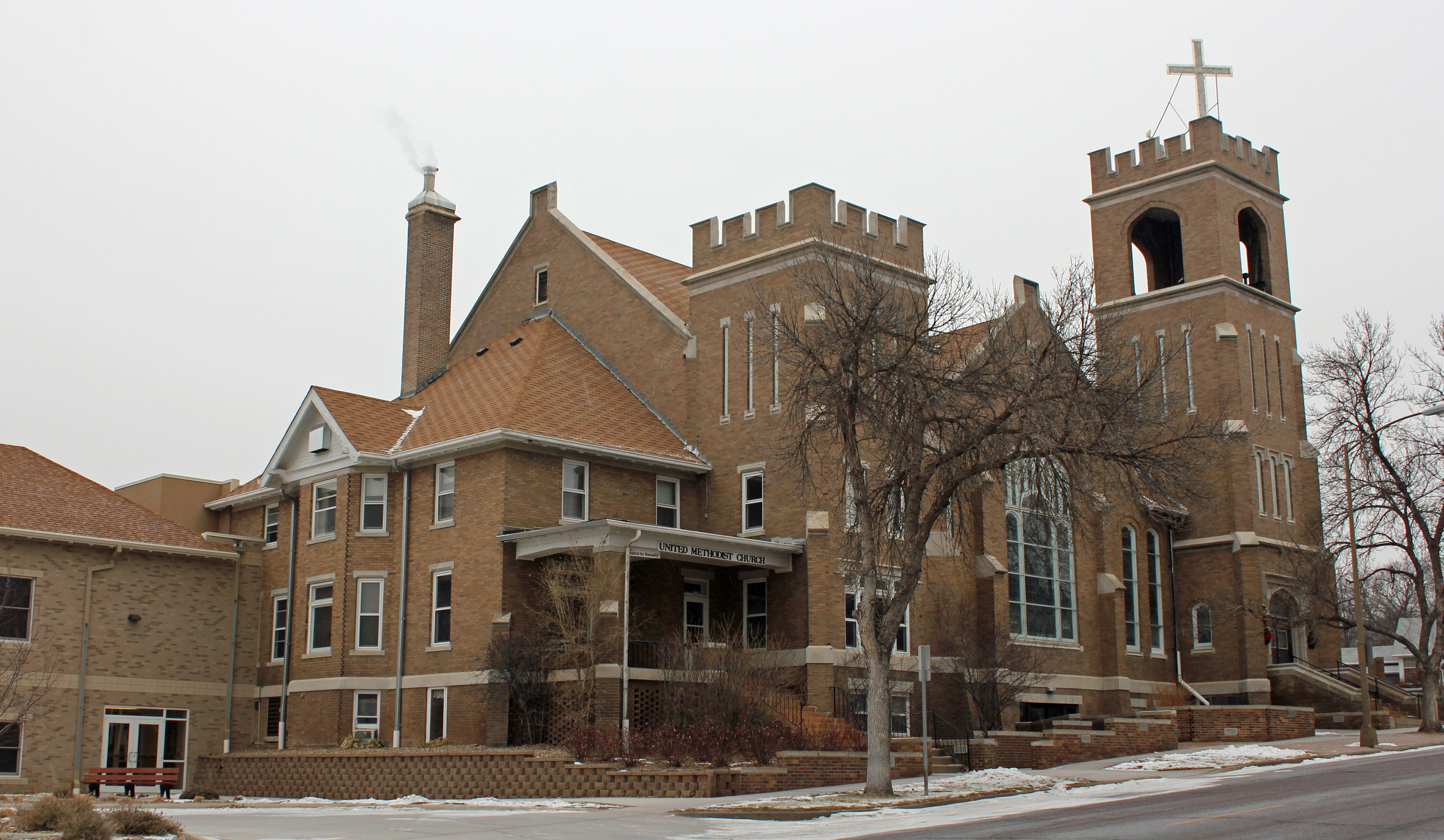 The Methodist Episcopal Church, located at 117 Central Avenue North in Pierre, South Dakota. The church is listed on the National Register of Historic Places.